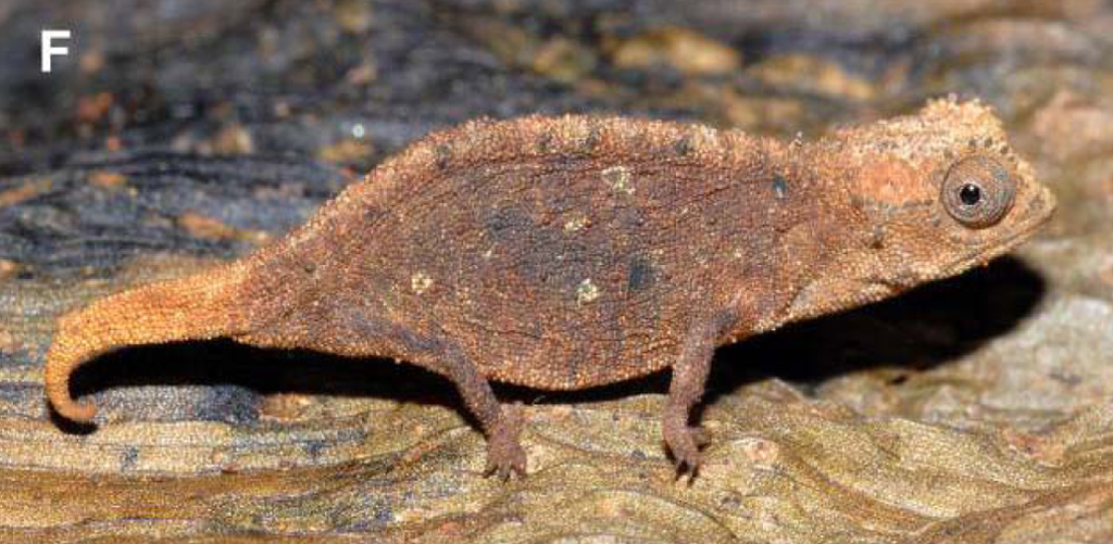 Female of Brookesia micra.